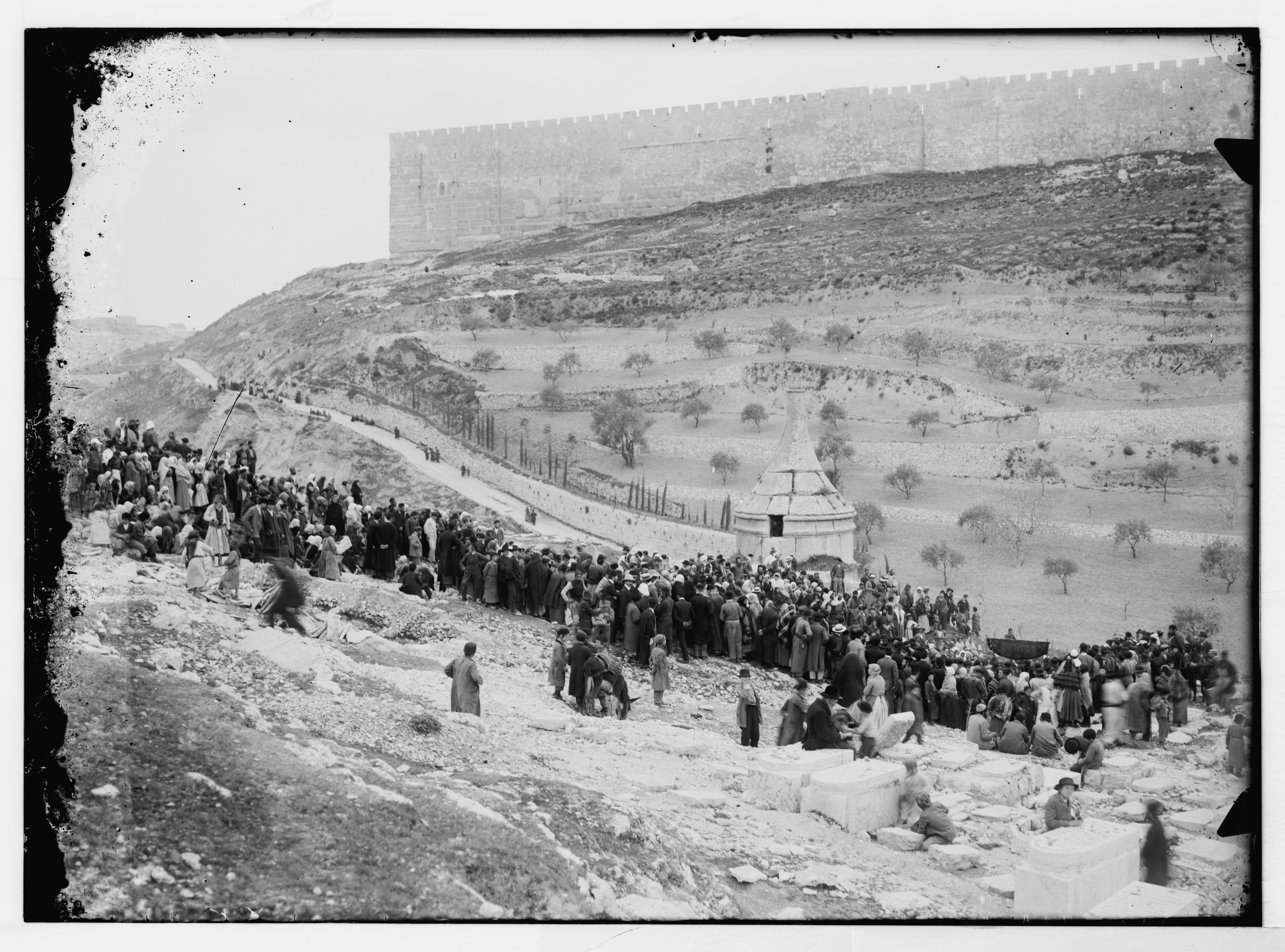 Mount of olives. Original caption: Jewish gathering at Tomb of Zacharieh, Kebron [i.e., Kidron] Valley